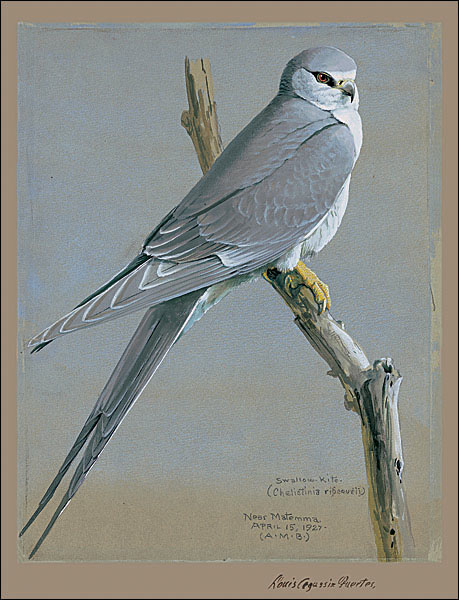 Painting of Scissor-tailed Kite, Chelictinia riocourii